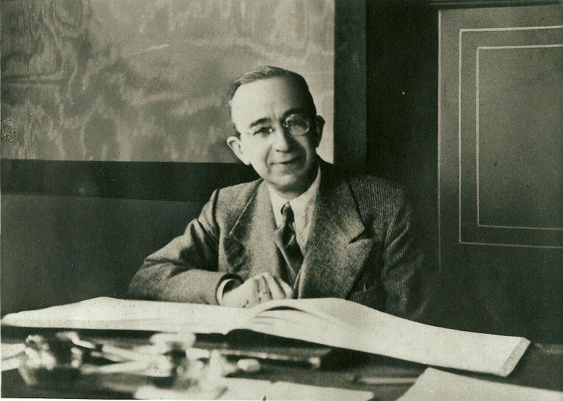 Bonaventura Ferrazzutto